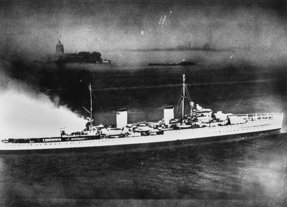 H.M.A.S Perth on delivery voyage to Australia, in New York harbour 1939. ( Description supplied with photograph.).